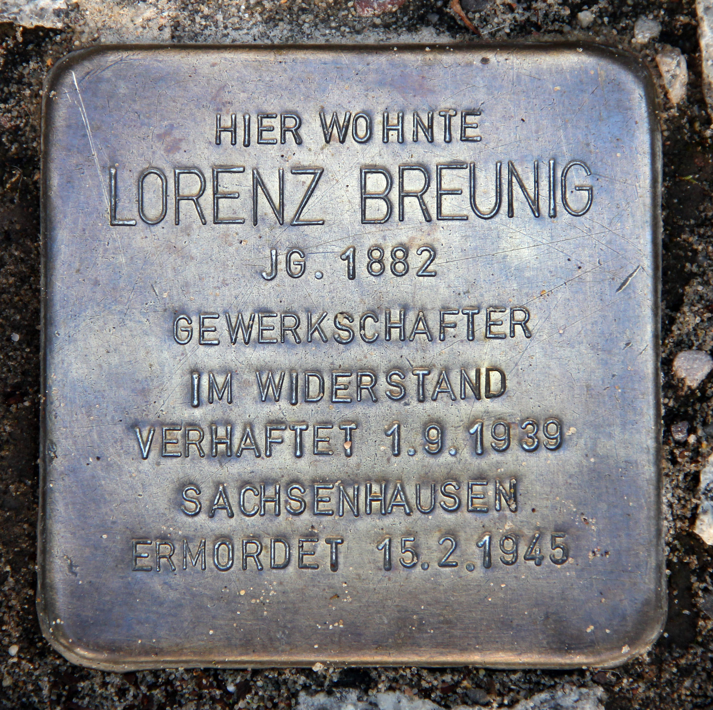 "Stolperstein" (stumbling block), Lorenz Breunig, Miltenberger Weg 9, Berlin-Pankow, Germany